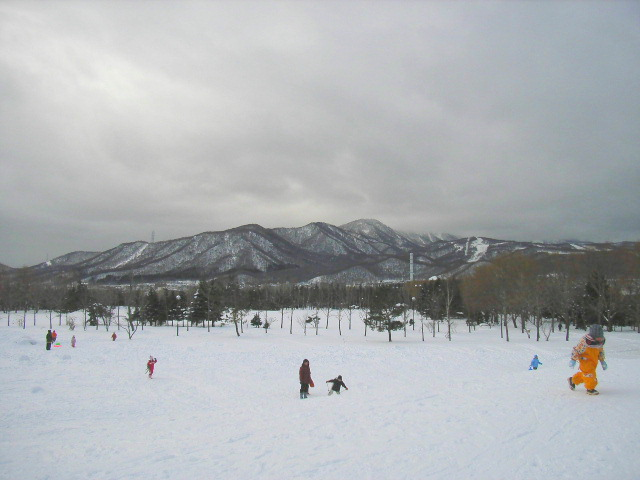 Ski Square in the Teine Inazumi Park. Maeda 1jō 5chōme, Teine Ward, Sapporo, Japan. From the ski square of the Teine Inazumi Park toward southwest. The background is the mountains of Teine. Mount Teine, the highest peak, hides in cloud..